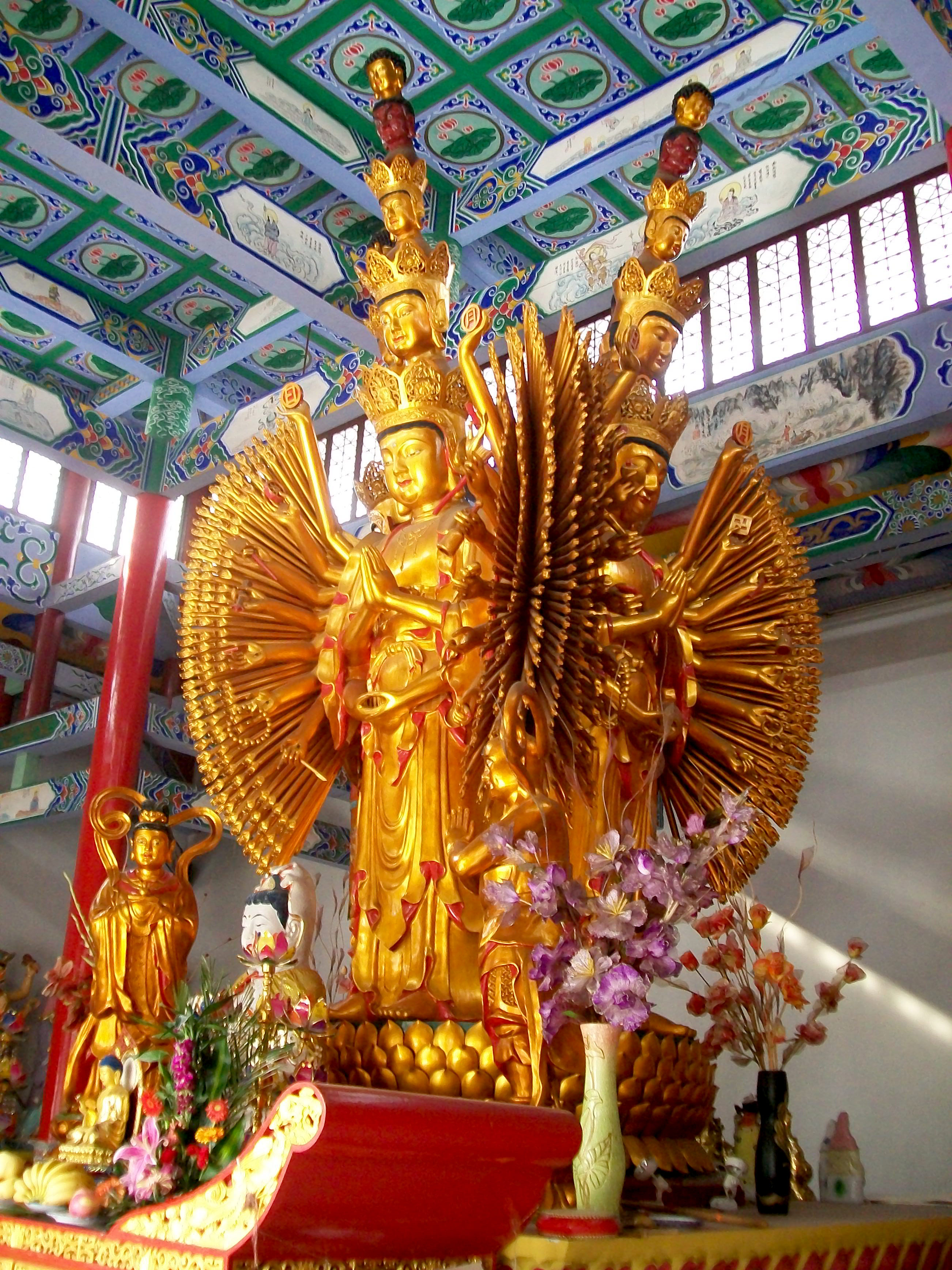 Large statue of Avalokitesvara Bodhisattva with 1000 arms. Guanyin Nunnery, Anhui province, China.